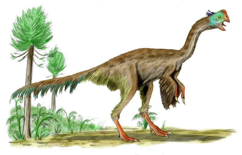 Gigantoraptor erlianensis, a giant oviraptorosaur from the Late Cretaceous of Mongolia, based on skeletal reconstruction by Xu et al., 2007; pencil drawing